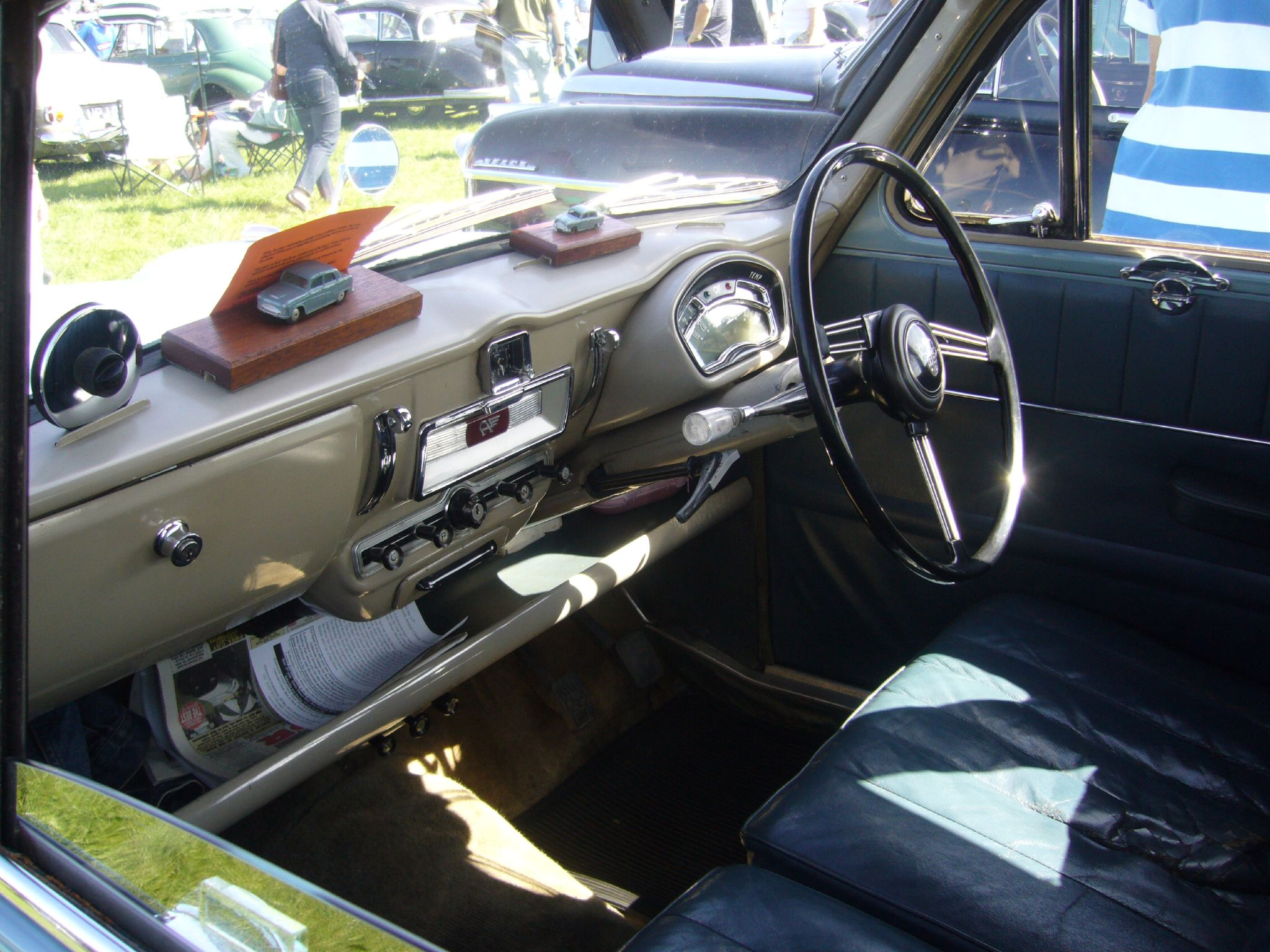 Austin Cambridge (A40)